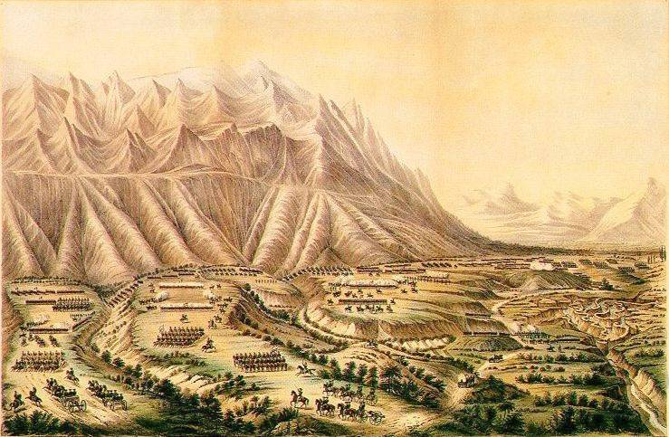 Painting by artist Joseph Horace Eaton.